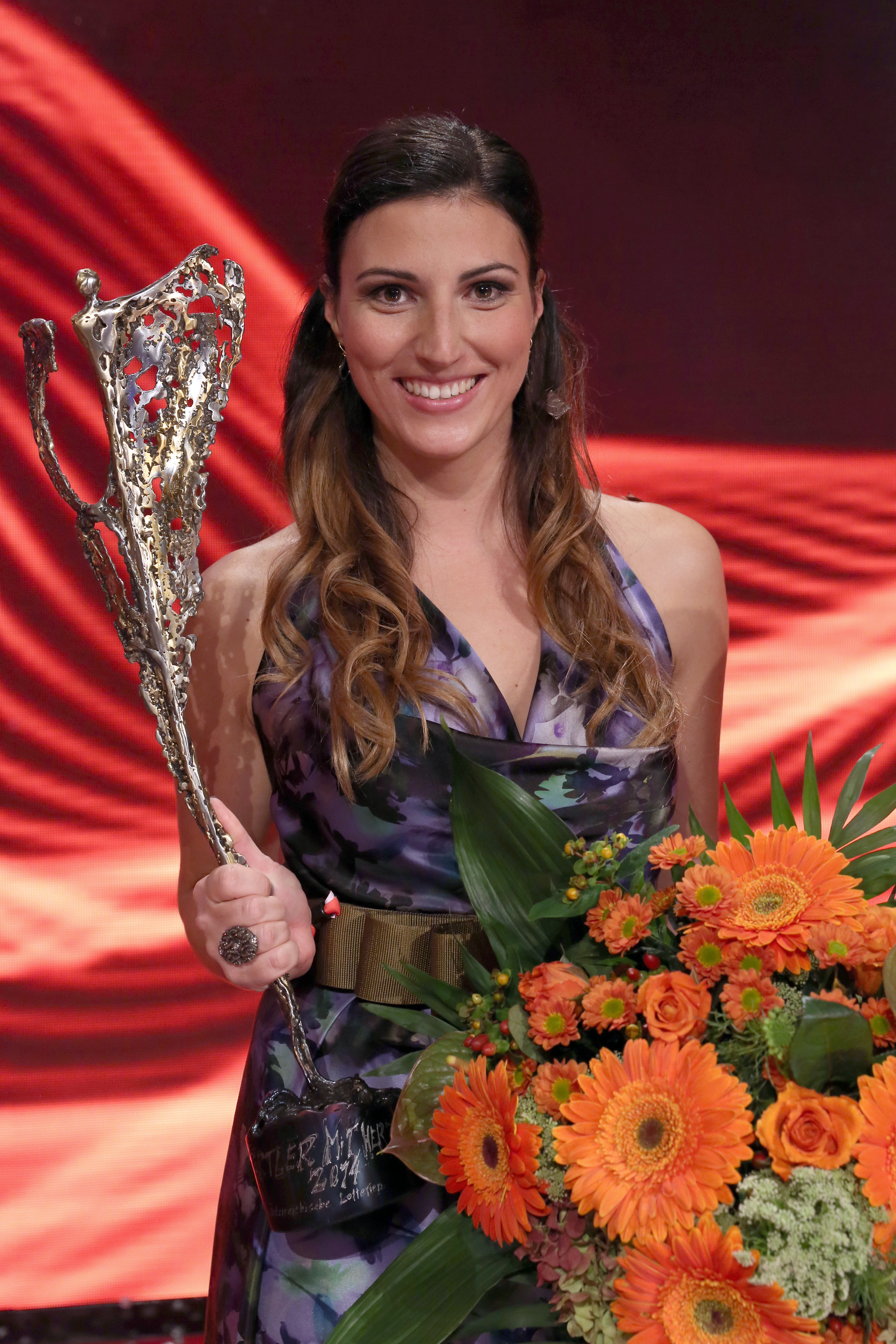 Mirna Jukić - Austrian Sportspersonalities of the year 2014 2014 (Austria Center Vienna).